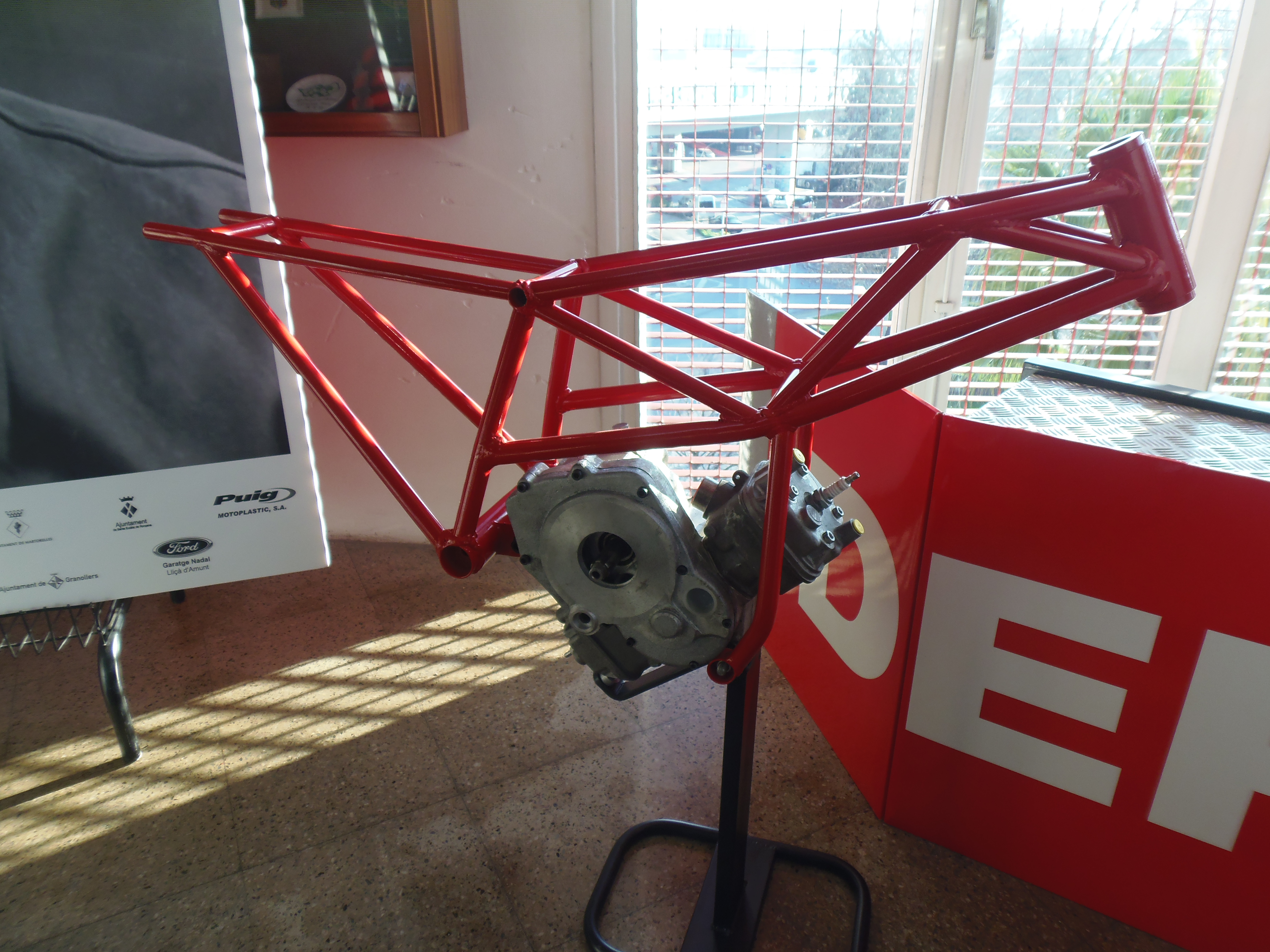 The tubular frame and the engine of a racing Derbi made by Paco Tombas in the late 80s